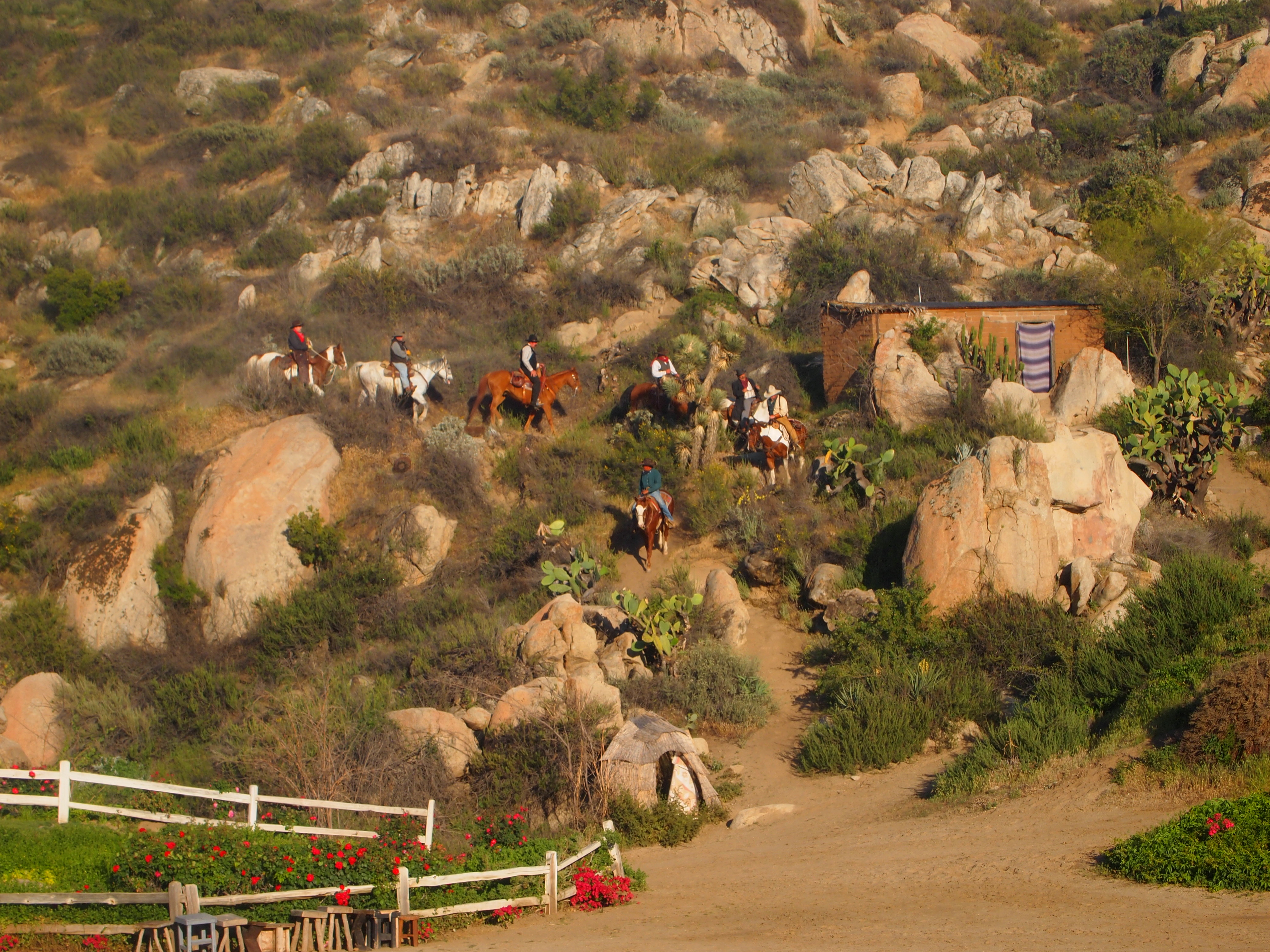 The picture is of a scene from the Ramona Pageant where men are going down the hill riding horses.